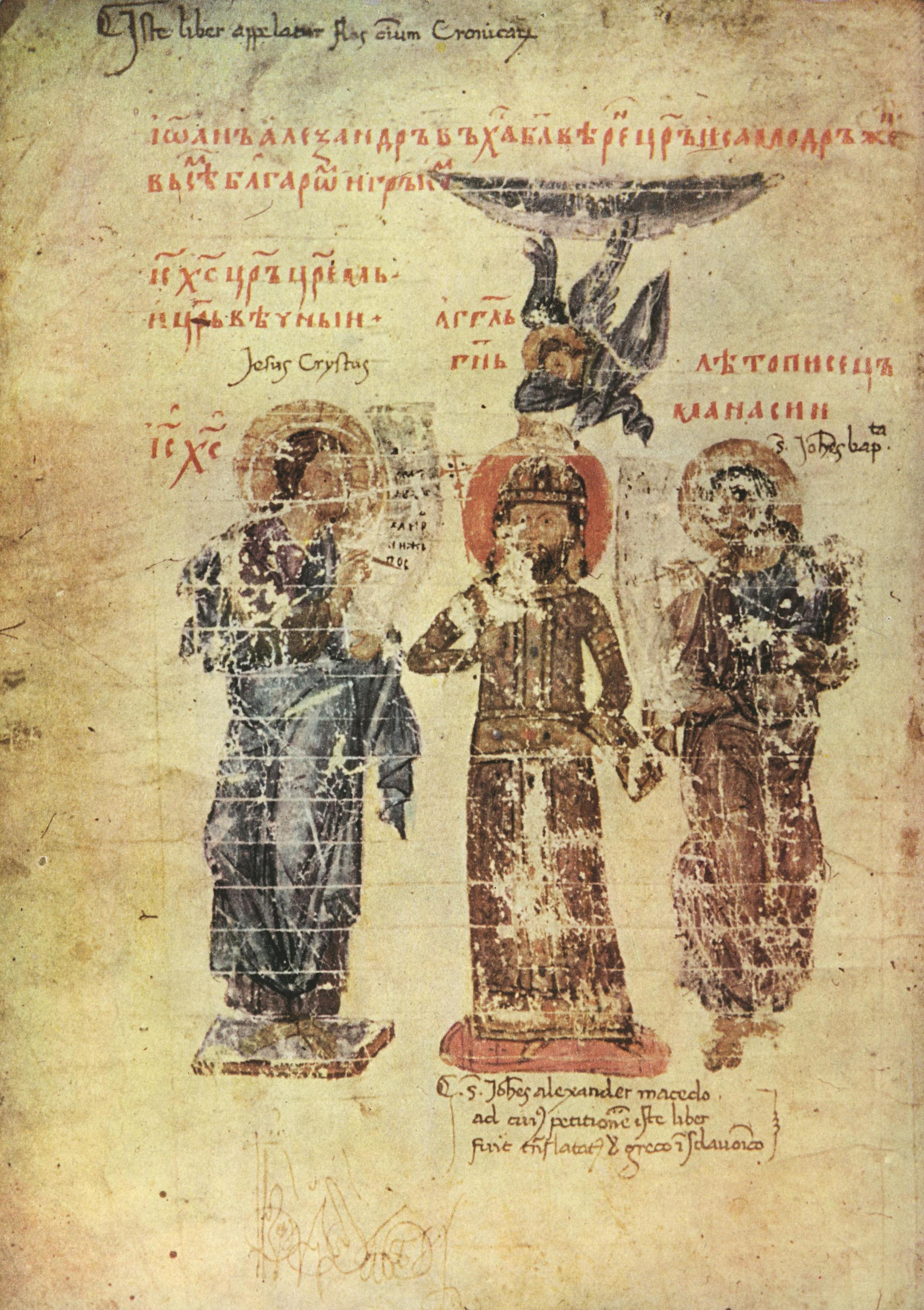 Miniature 1 from the Constantine Manasses Chronicle, 14 century: Tsar Ivan Alexander, Jesus Christ and the chronicler Constantine Manasses